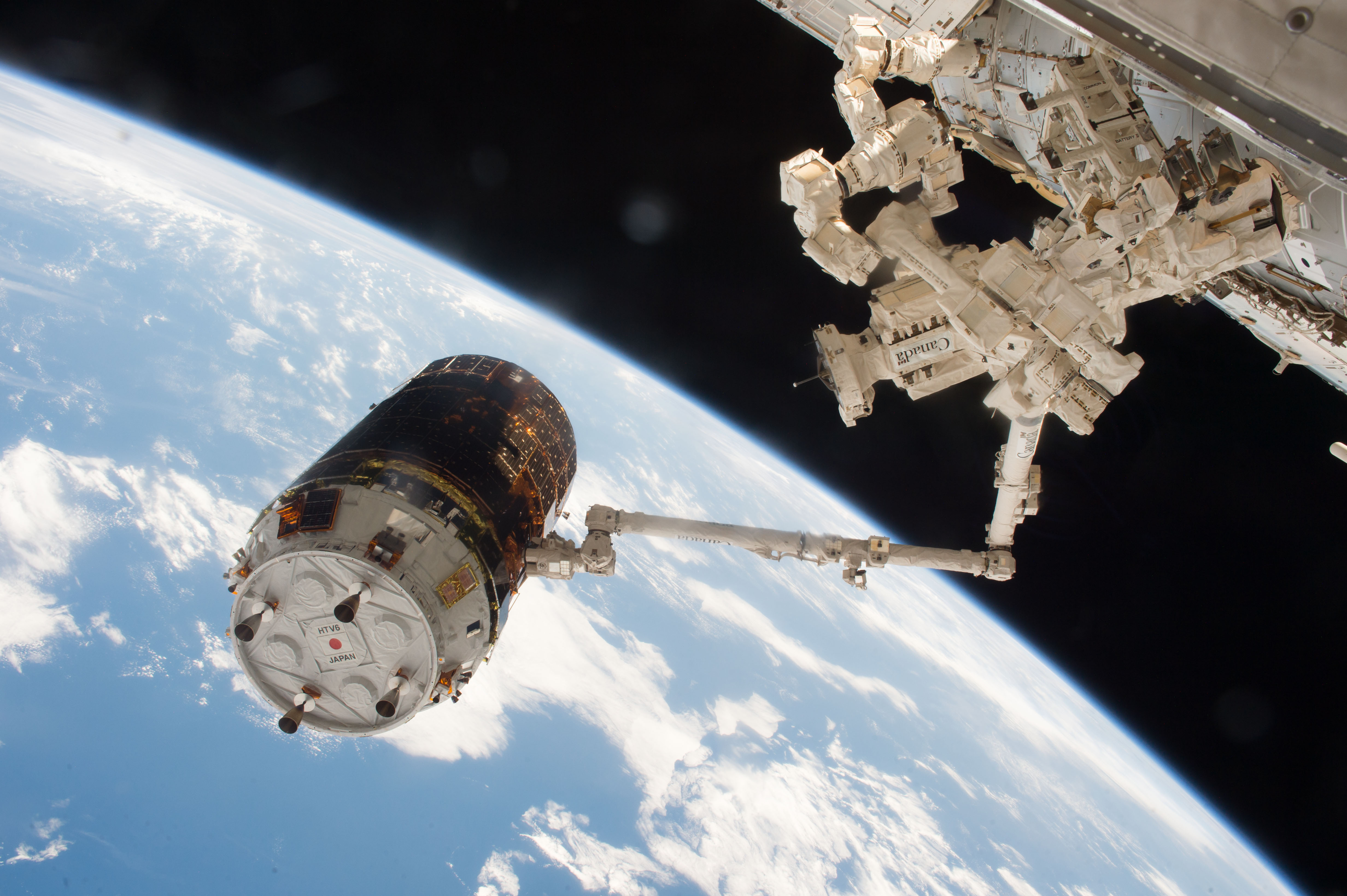 The Japanese HTV-6 cargo vehicle is seen grappled by the International Space Station's robotic arm after arrival. HTV-6 launched from the Tanegashima Space Center in southern Japan on Friday, Dec. 9 and arrived at the space station on Tuesday, Dec. 13. The vehicle was loaded with more than 4.5 tons of supplies, water, spare parts and experiment hardware for the six-person station crew, including six new lithium-ion batteries and adapter plates that will replace the nickel-hydrogen batteries currently used on the station to store electrical energy generated by the station’s solar arrays.